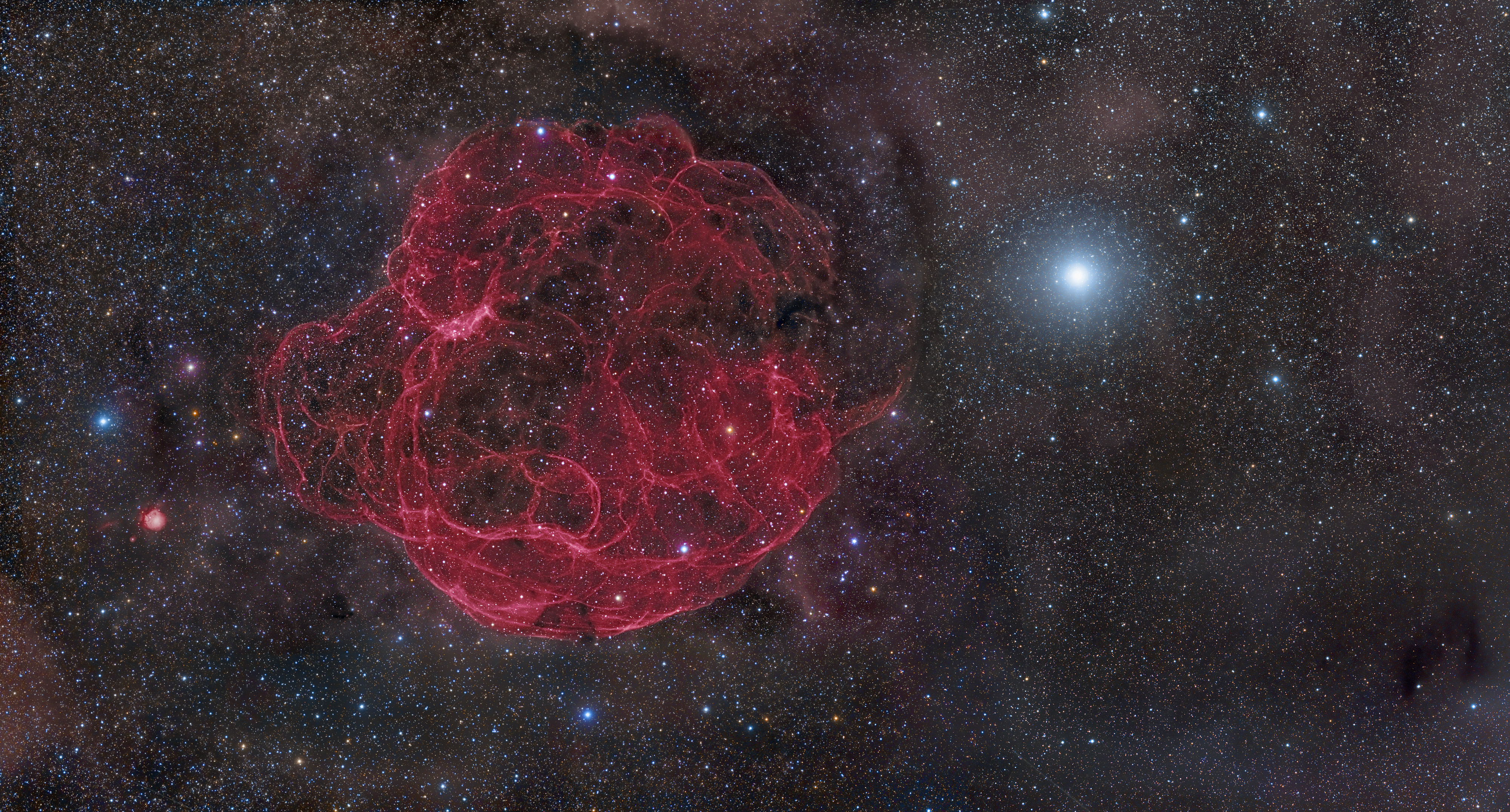 Photograph by Rogelio Bernal Andreo of Simeis 147. Also known as the Spaghetti Nebula and cataloged as Sharpless 2-240, this filamentary structure can be found in the constellation Taurus, close to the border of Auriga, in roughly the same line of sight as the star Elnath. Approximately 3000 light years away, the nebula stretches about 150 light years across.